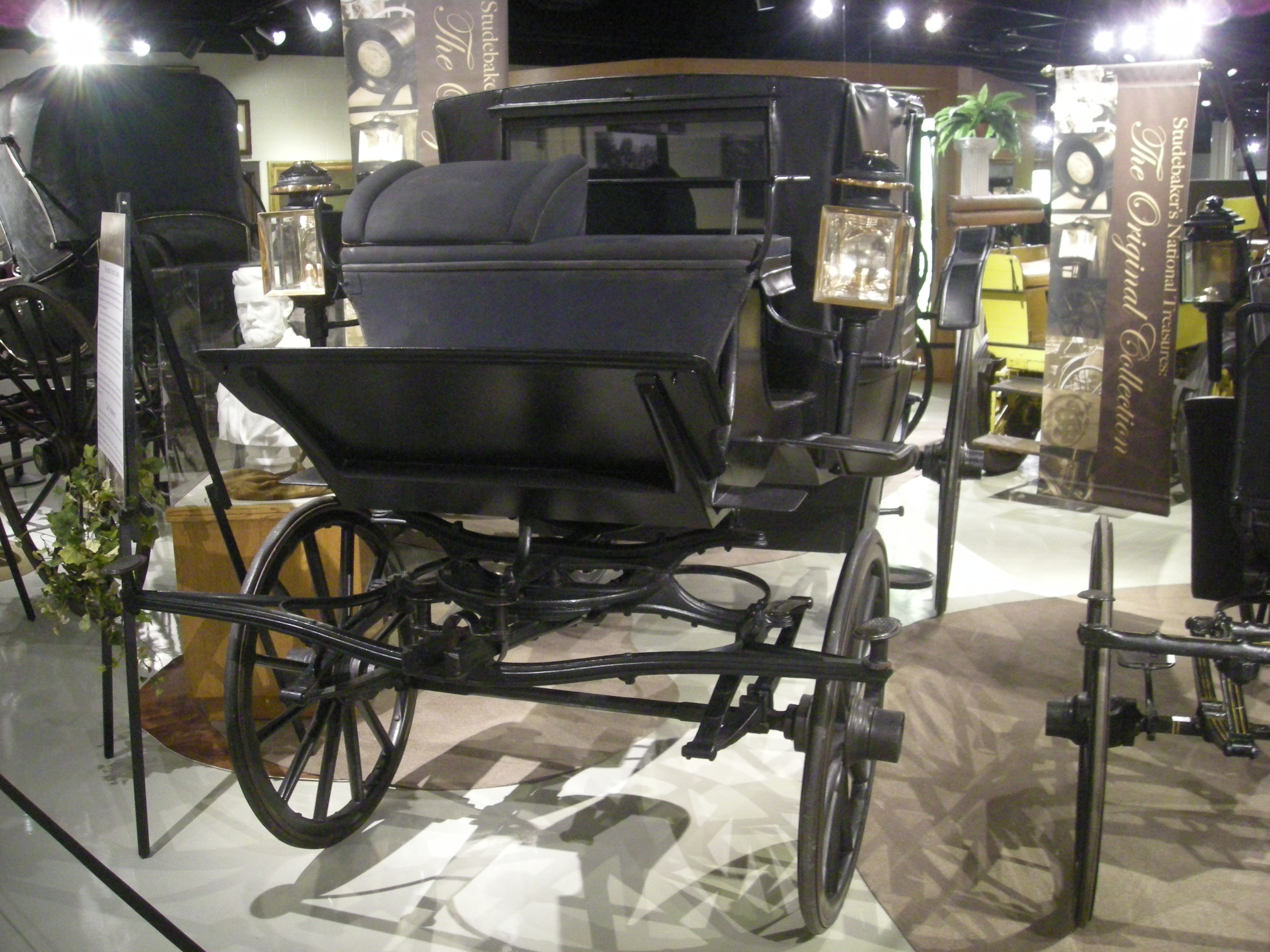 President Ulysses S. Grant's Landau at the Studebaker National Museum in South Bend, Indiana (United States).